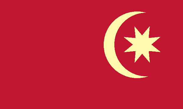 Flag of Ha'il state (north-west of Arabian Peninsula) 1834-1921